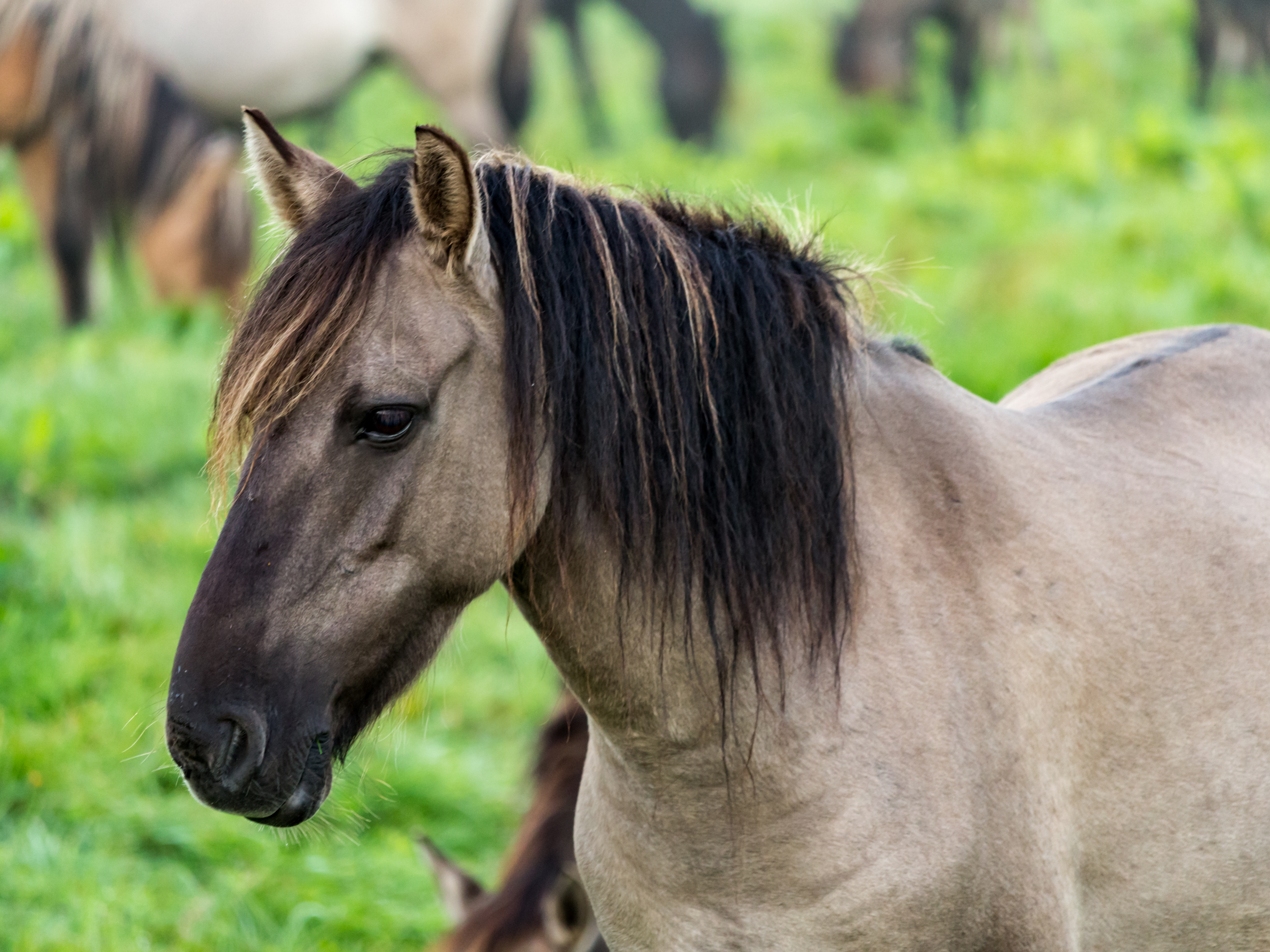 Dülmen ponies in the Wildbahn in the Merfelder Bruch in the morning fog at sunrise, Merfeld, Dülmen, North Rhine-Westphalia, Germany